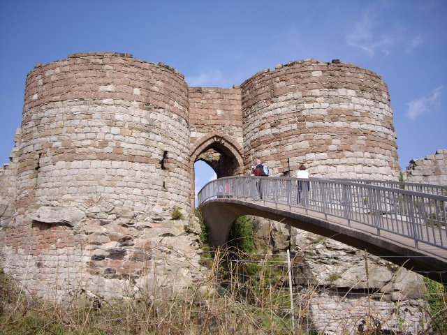 Beeston Castle Gate House and Bridge